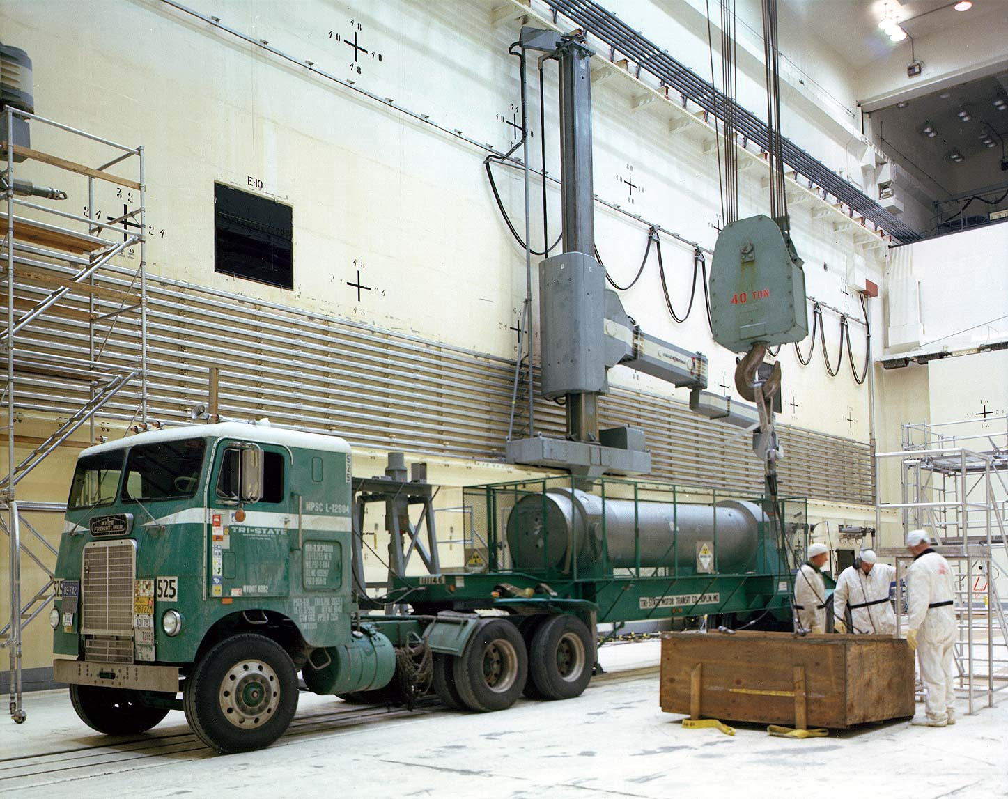 Nevada Test Site - Nuclear Rocket Development Station. Workmen ready a crane to lift a shipping cask containing spent reactor fuel from a truck bed. They are inside a facility at the NTS that can handle radioactive material remotely. The crane and other equipment is controlled remotely to remove the radioactive fuel from the cask.